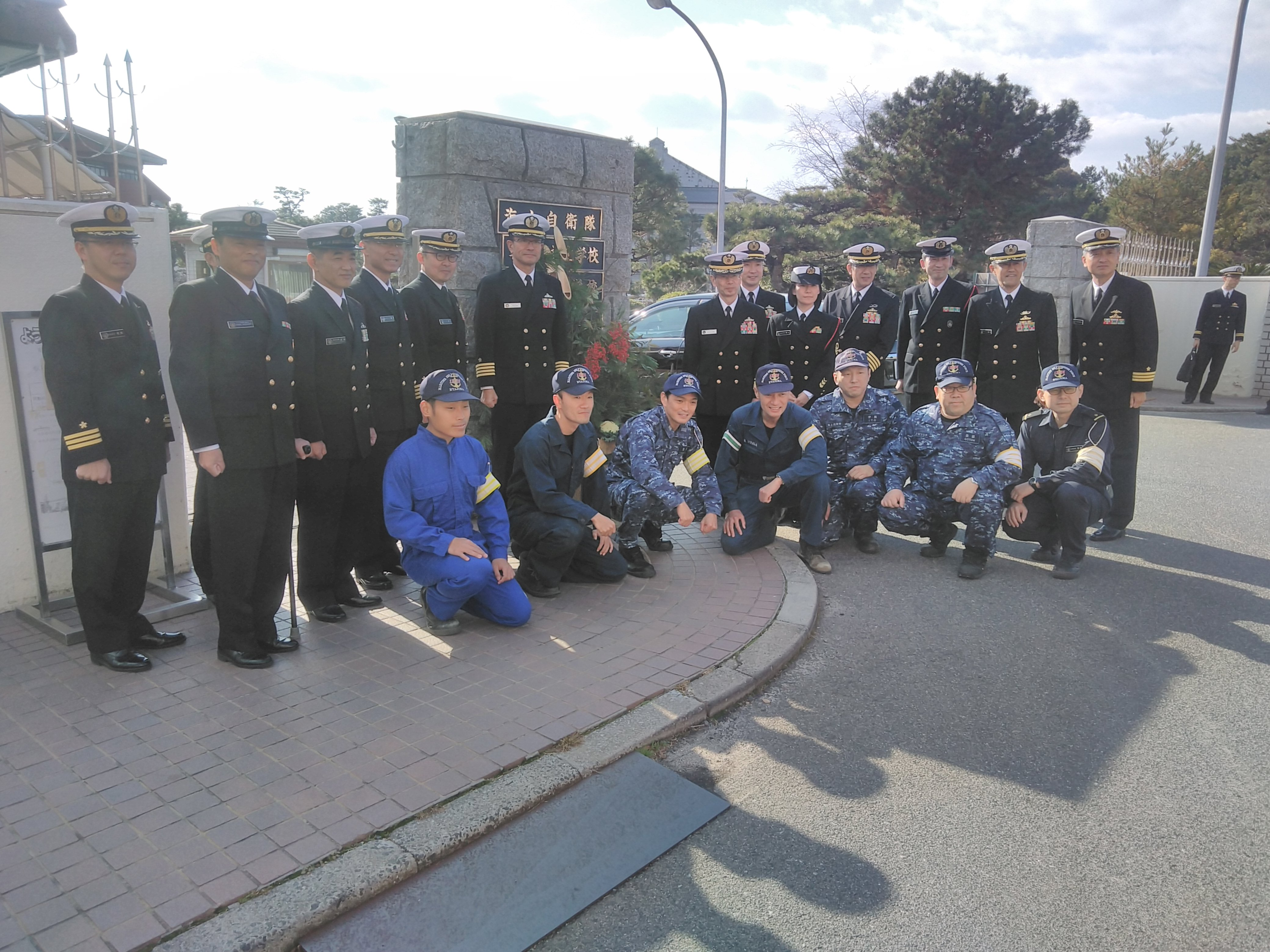 Japanese Reiwa era is start 20190501.